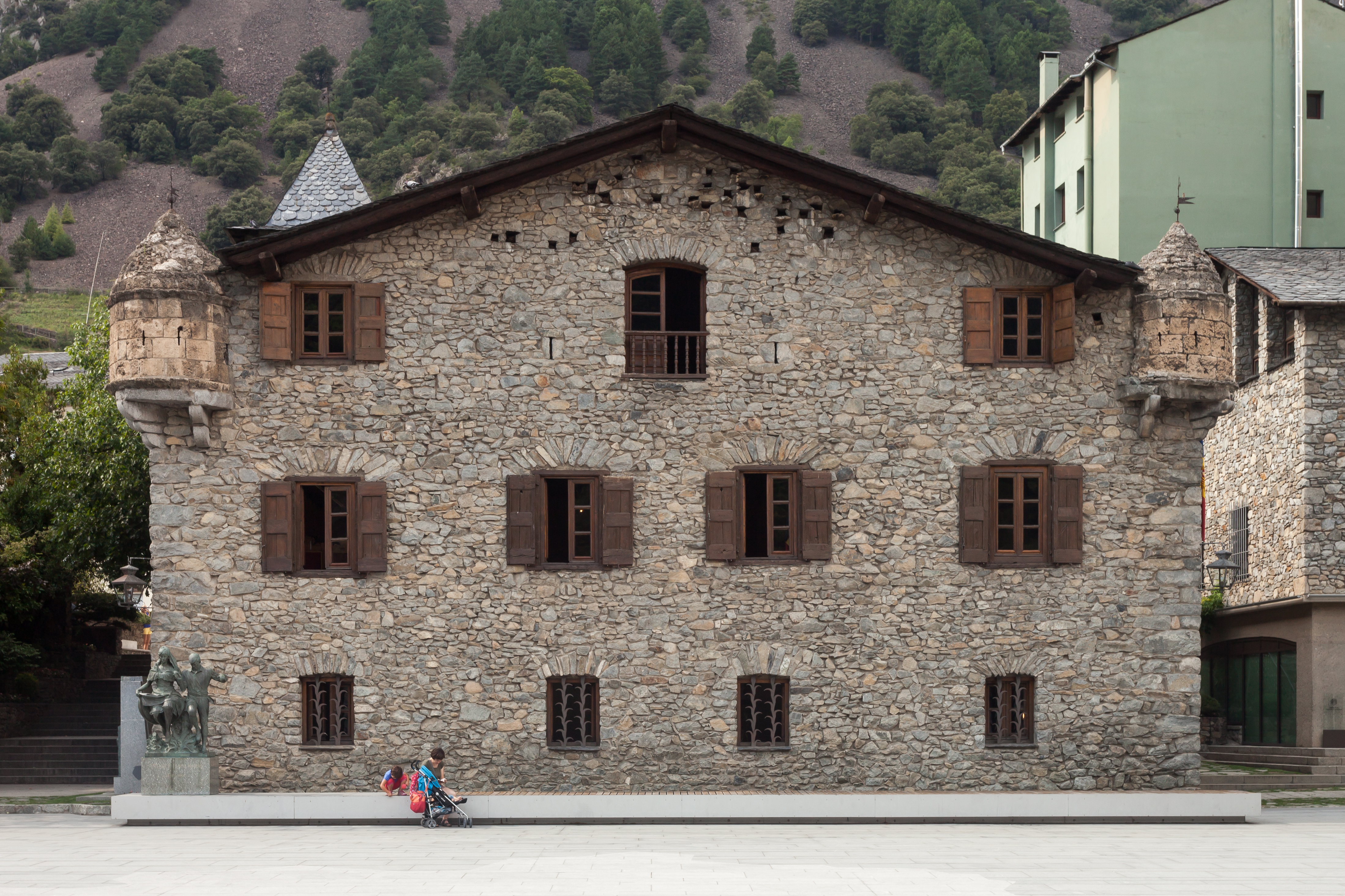 House of la Vall. Year 1580. Andorra